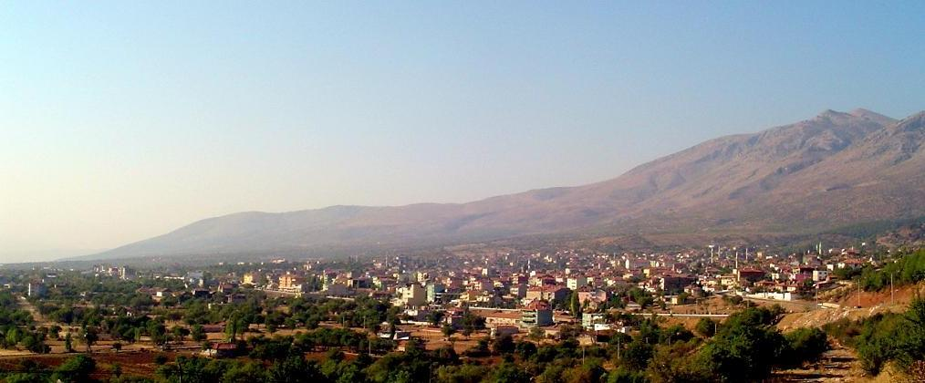 Serinhisar general view, Turkey